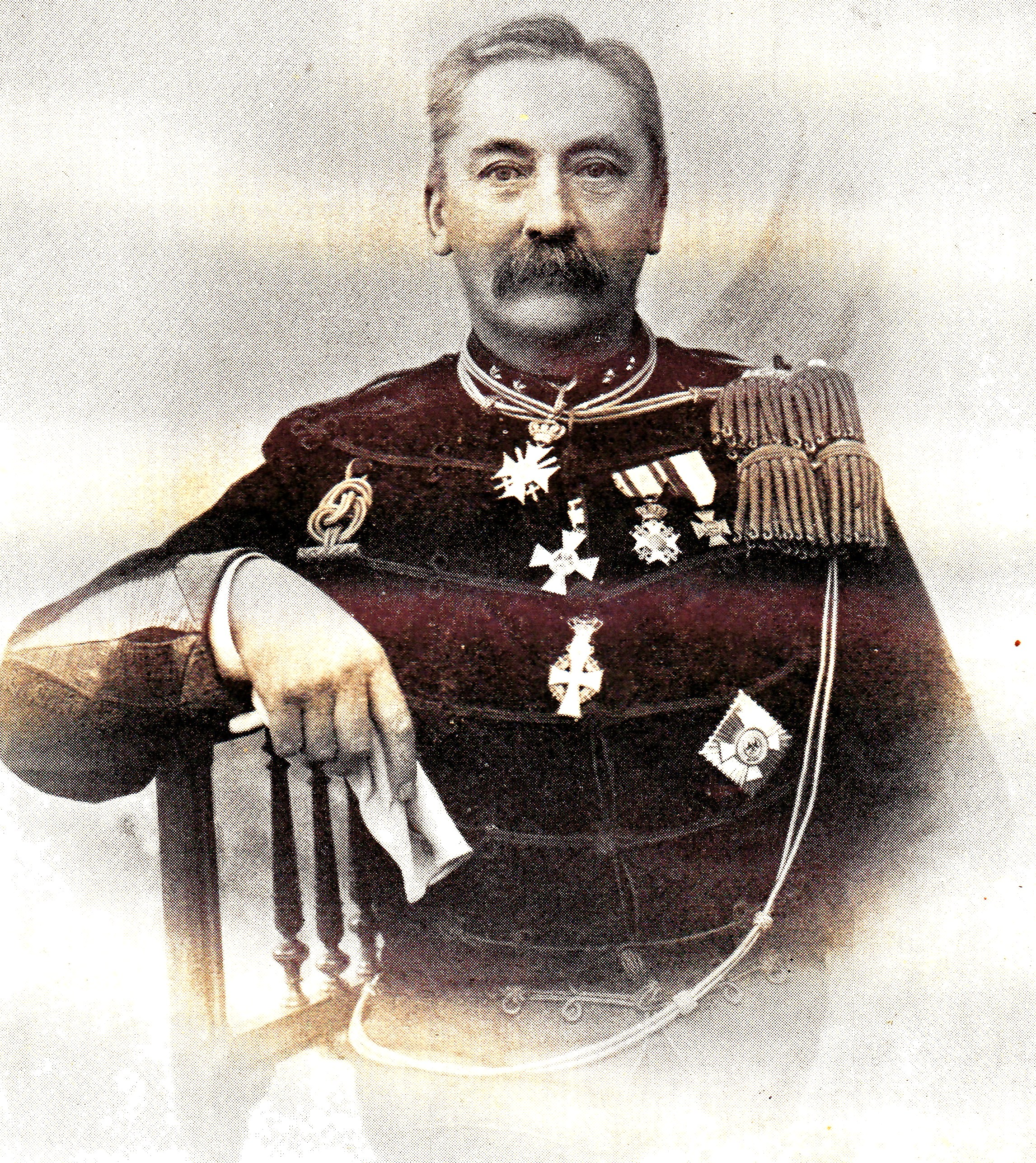 Gouverneur generaal W. Rooseboom